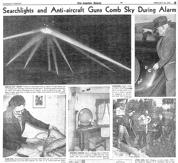 Page B of the February 26, 1942, Los Angeles Times, showing the coverage of the so-called Battle of Los Angeles and its aftermath (lots of articles on people finding dud shells, unexploded ordnance, etc.